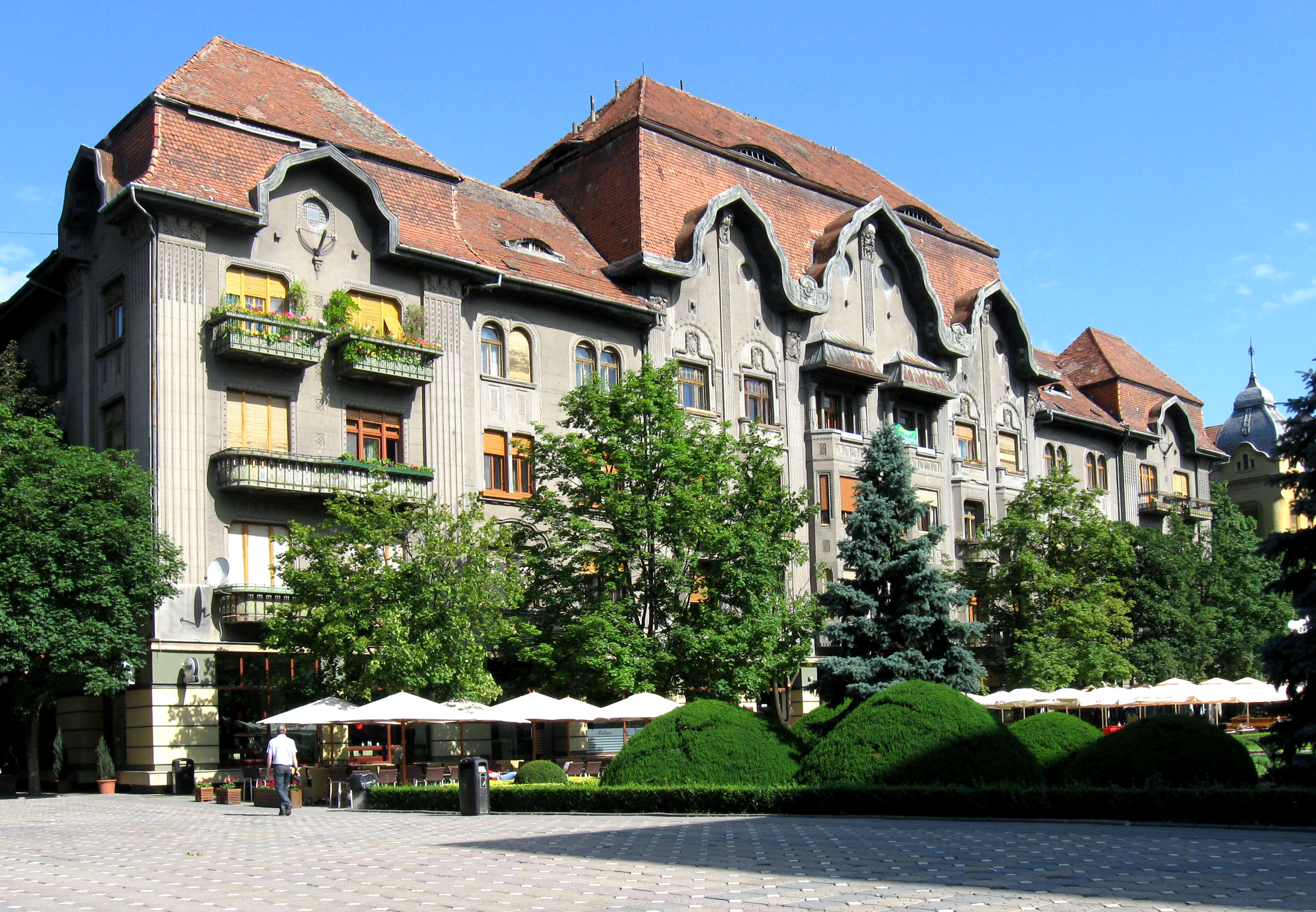 Dauerbach Palace, Timisoara, Romania. Built 1912-1913, architect Székely László (1877-1934)